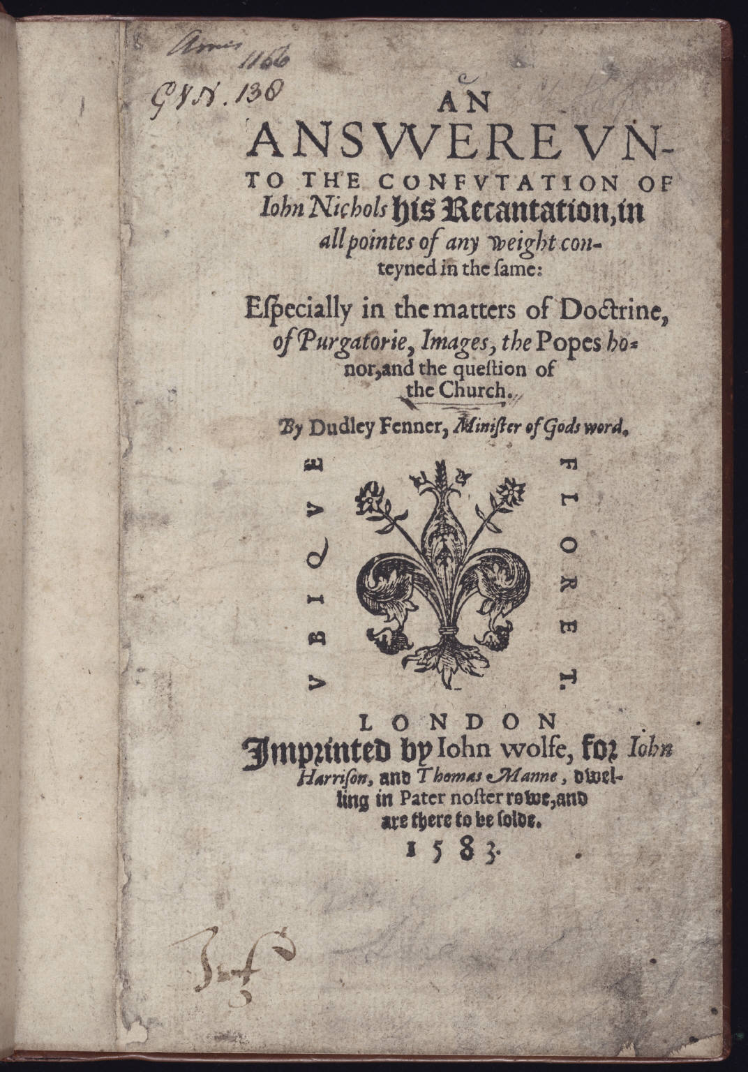 "An Answere Unto the Confutation of John Nichols his Recantation, in all pointes of any weight conteyned in the same: Especially in the matters of Doctrine, of Purgatorie, Images, the Popes honor, and the question of the Church," by Dudley Fenner, printed by John Wolfe, London, 1853. Title page. Image courtesy of the Beinecke Rare Book & Manuscript Library, Yale University.